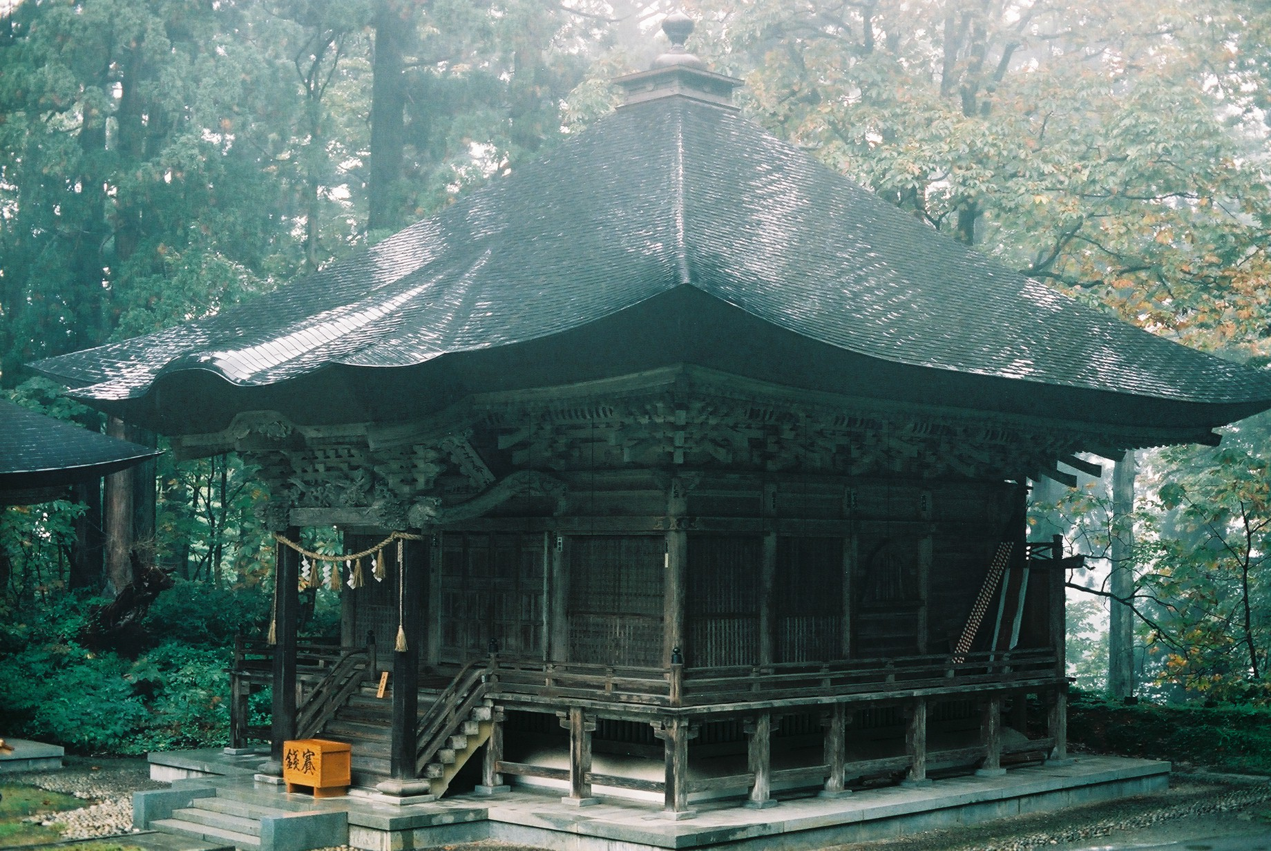 Hachiko Shrine, on the top of Mt. Haguro, in Tsuruoka. It enshrines Prince Hachiko, the eldest son of Emperor Sushun of the 6th century.